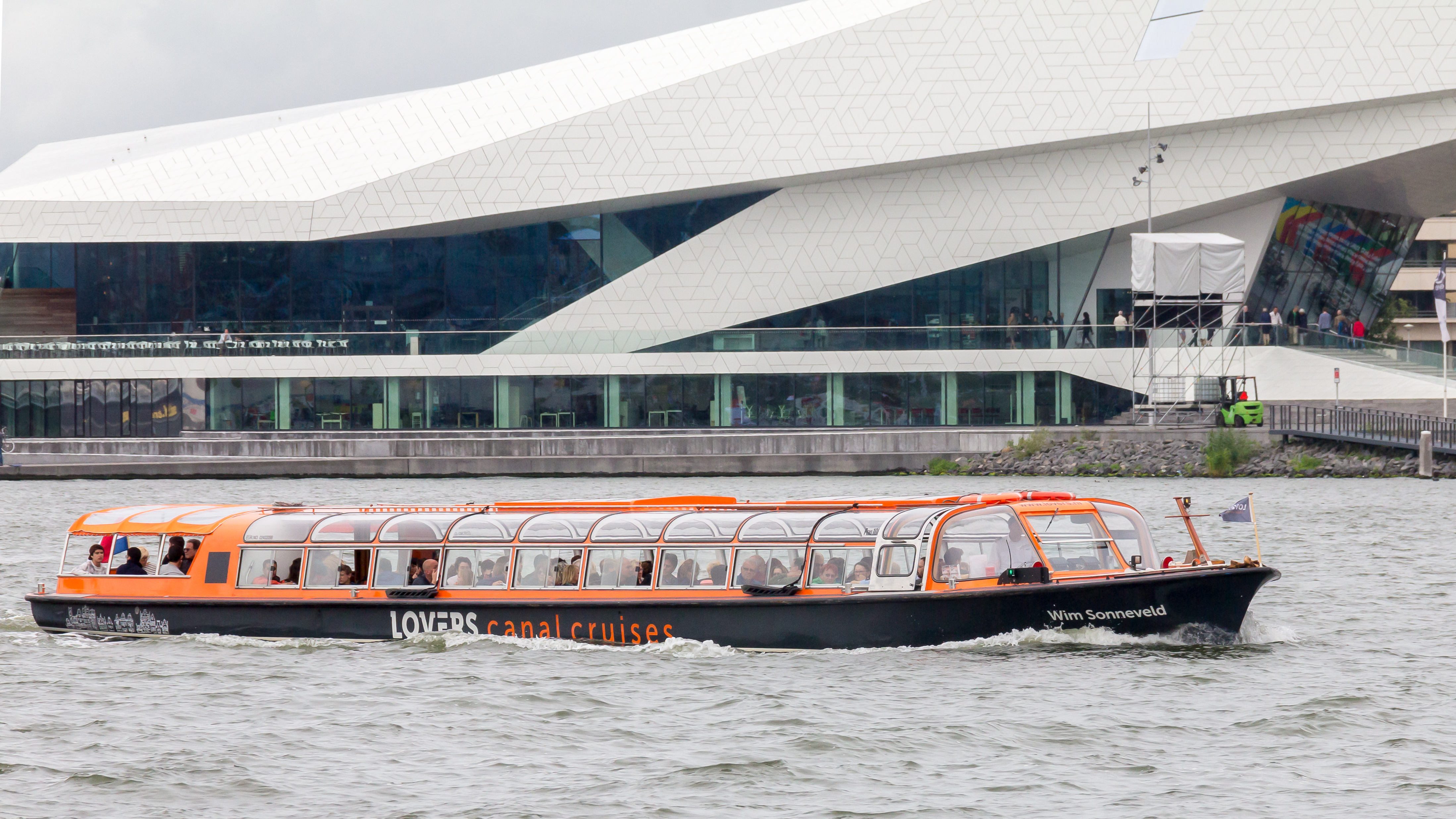 Wim Sonneveld tour boat (ENI 02402098), Rederij Lovers, on the Ij in Amsterdam